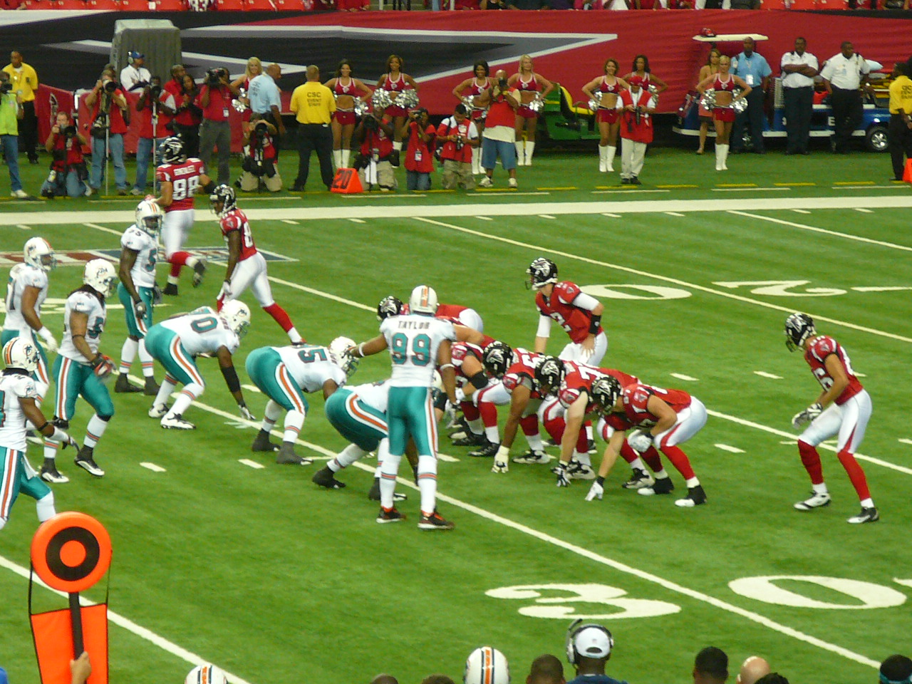 If used somewhere other than Wikipedia, Nelson, by name.